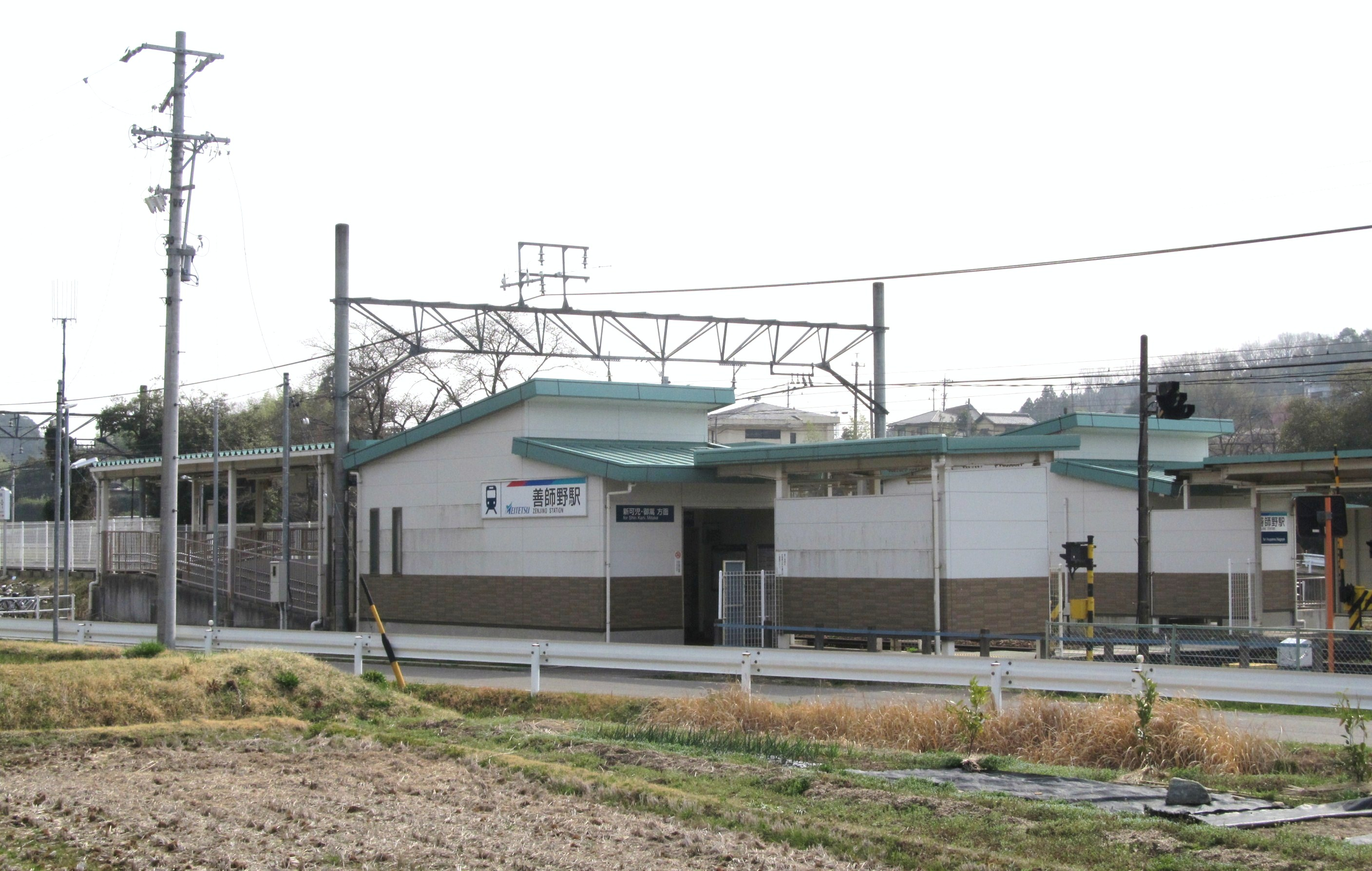 Nagoya Railroad Hiromi Line Zenjino Station Building (for Kani).